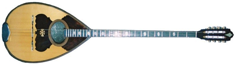 Photograph of bouzouki. “The three-course bouzouki (trichordo) This is the classical type of bouzouki that was the mainstay of most Rebetiko music. It has fixed frets and it has 6 strings in three pairs. In the lower-pitched (bass) course, the pair consists of a thick wound string and a thin string tuned an octave apart. The conventional modern tuning of the trichordo bouzouki is Dd-aa-dd. This tuning was called the "European tuning" by Markos Vamvakaris, who described several other tunings, or douzenia, in his autobiography. The illustrated bouzouki was made by Karolos Tsakirian of Athens, and is a replica of a trichordo bouzouki made by his grandfather for Markos Vamvakaris and became more famous from Manolis Chiotis. The absence of the heavy mother of pearl ornamentation often seen on modern bouzoukia is typical of bouzoukia of the period. It has tuners for eight strings, but has only six strings, the neck being too narrow for eight. The luthiers of the time often used sets of four tuners on trichordo instruments, as these were more easily available, since they were used on mandolins.[citation needed]” —Bouzouki#The three-course bouzouki (trichordo)